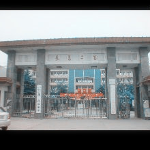 长葛二高南大门